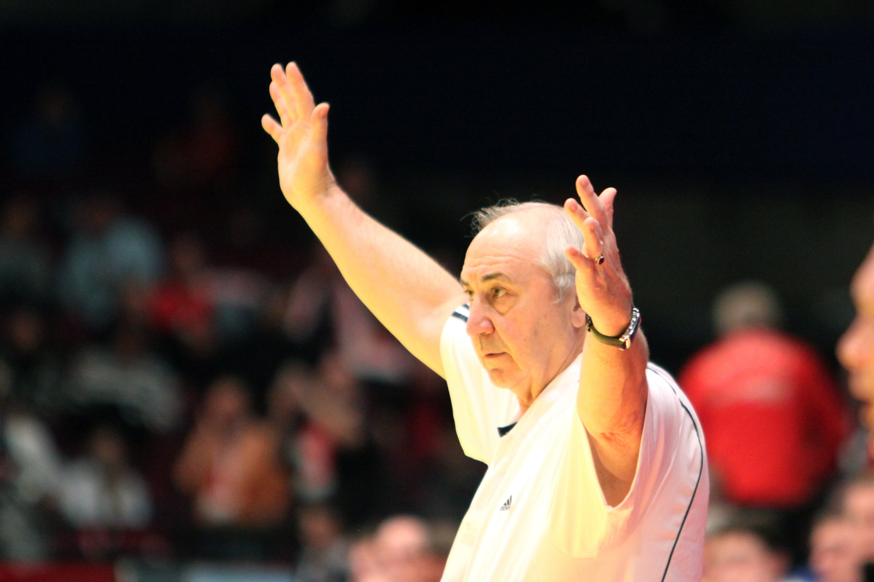 Vladimir Maximov (Teamchef), Russia national handball team